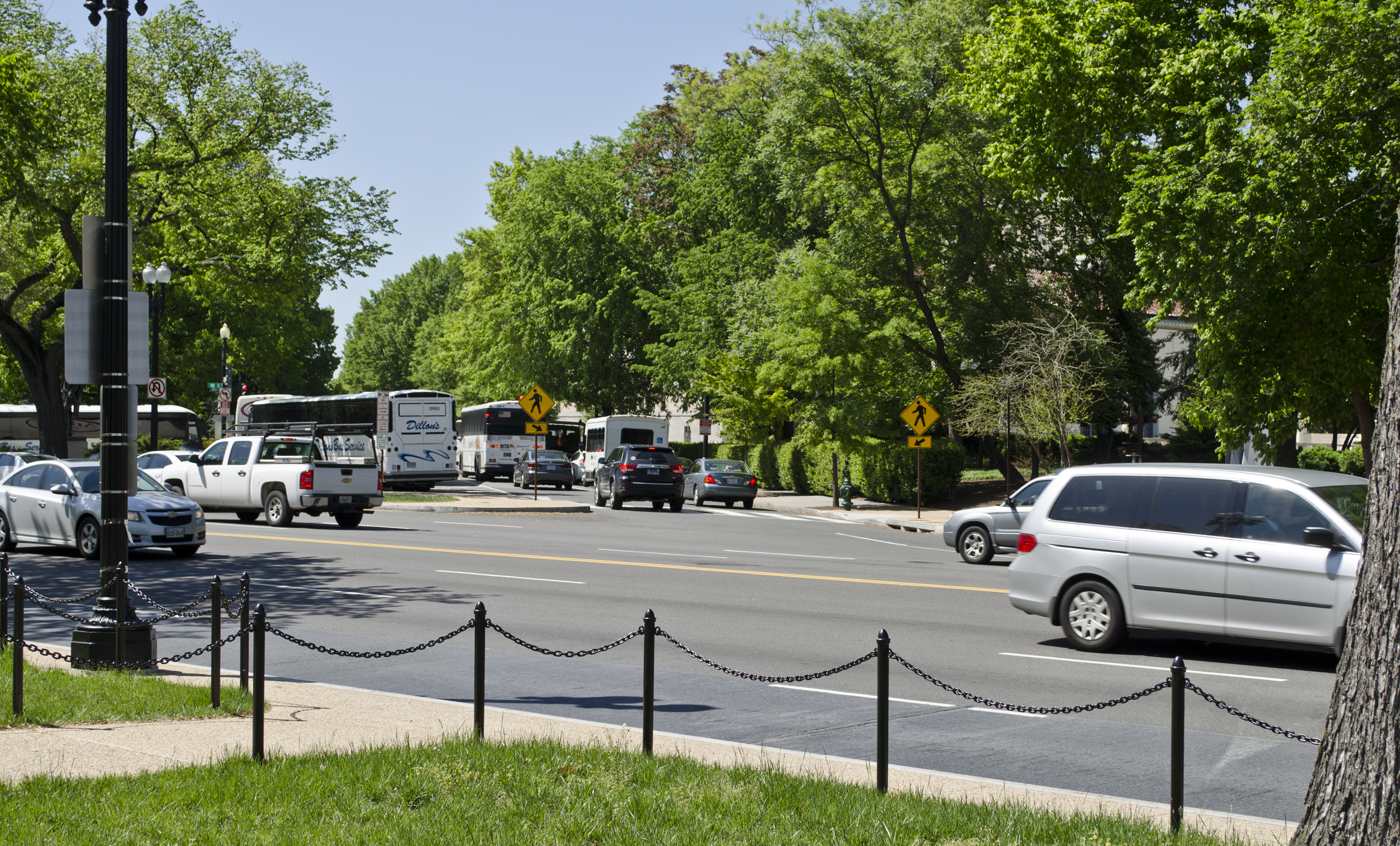 Looking northwest Constitution Avenue NW at Virginia Avenue NW in Washington, D.C., in the United States. From 1873 to about 1890, Virginia Avenue NW was the western terminus of Constitution Avenue NW. Constitution Avenue NW existed only between 3rd and 15th Streets NW from the city's inception in 1791 to 1871. Between 1871 and 1873, the city covered over the Tiber Creek estuary and built the street on top of it west to Virginia Avenue NW. Between 1881 and 1890, the city dredged the Potomac River and reclaimed the land that now constitutes West Potomac Park (for use as a levee). Constitution Avenue NW was then extended through the park to 23rd Street NW. When Arlington Memorial Bridge was authorized for construction in 1926, Congress ordered that "B Street" be extended to the Potomac River and widened into a ceremonial gateway for the city. In 1931, Congress changed the name of "B Street" to Constitution Avenue. A granite terrace and small traffic circle was constructed on the shores of the Potomac to form the western terminus of the street. In the 1950s, Congress authorized construction of the Theodore Roosevelt Memorial Bridge, and ordered that the bridge connect with Interestate-66 (then being built from the east toward the city). Constitution Avenue NW was torn up and the area restored to parkland west of 23rd Street NW. Raised on-ramps and off-ramps were built through the area to connect the avenue to the bridge. The terrace and traffic circle were not destroyed, however. In 1901, the Senate Parks Commission produced a master plan (the "McMillan Plan") to beautify the National Mall area in Washington, D.C. Among its requirements was that sidewalks on the Mall be lined with double-rows of American elms and beeches. Although the sidewalks were removed when Constitution Avenue was torn up in the 1950s, some of the double-rows of trees survived.